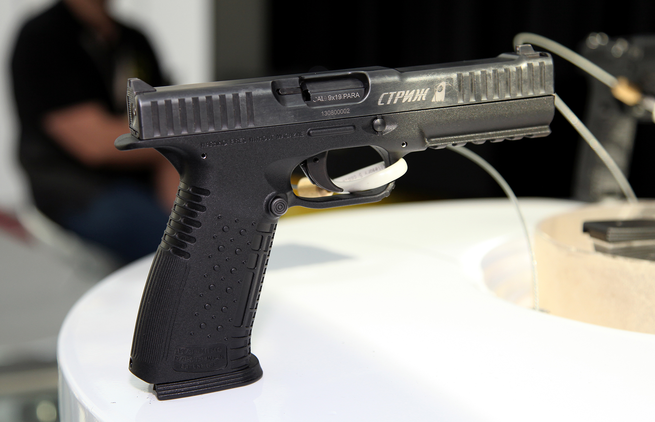 9x19 Strizh / Strike One pistol at Moscow International Exhibition "ARMS & Hunting 2013"